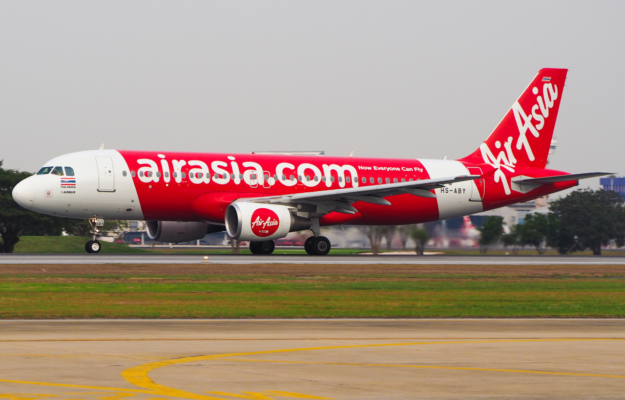 Thai AirAsia HS-ABY take off from Don Mueang to Kumming in Thailand Children Day's